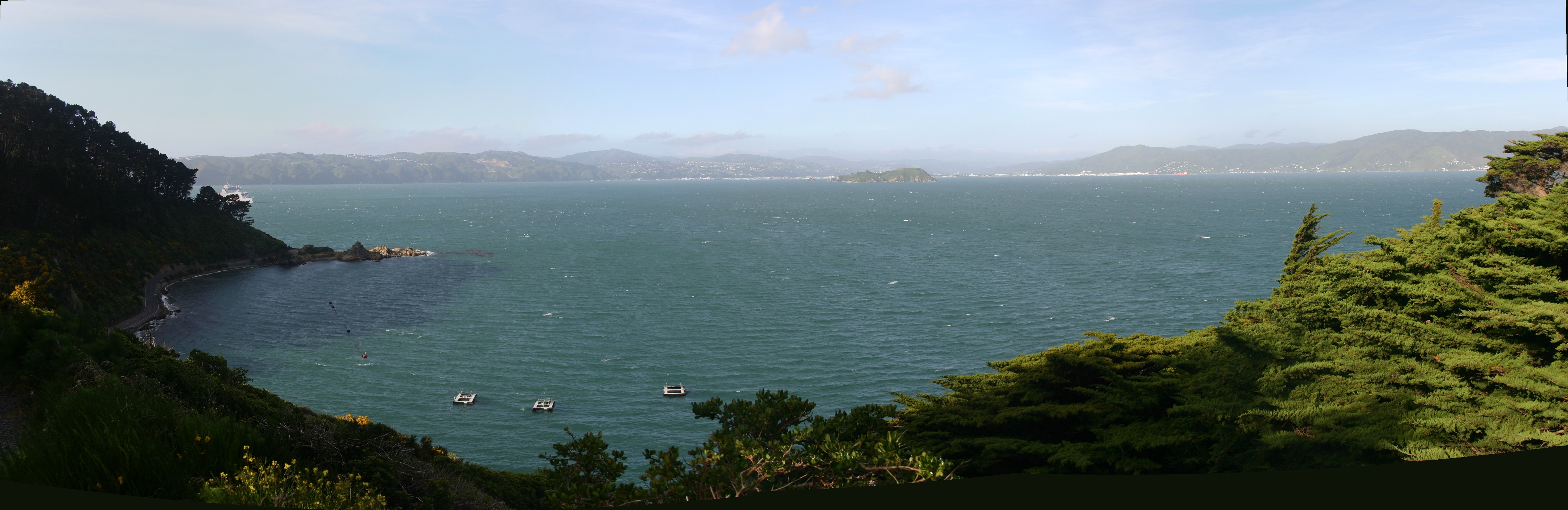 Panorama of Wellington Harbour view from Point Gordon. Wellington, New Zealand. Somes Island can be seen in the middle. Panorama created with Hugin from four photographs using an Equirectangular projection.